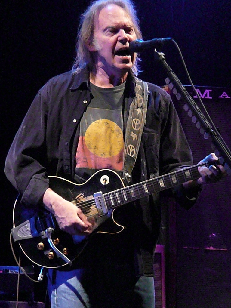 Neil Young at the Trent FM Arena in Nottingham.